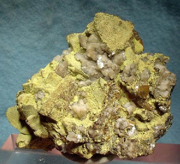 Tsumcorite, Tetrahedrite, Wulfenite Locality: Tsumeb Mine (Tsumcorp Mine), Tsumeb, Otjikoto (Oshikoto) Region, Namibia (Locality at ) Size: 6.5 x 5.3 x 3.5 cm. Yellow tsumcorite druse covers the rich field of sharp tennantite crystals that reach 1.7 cm. The specimen is nicely accented with lustrous dolomite rhombs and a few glassy, amber wulfenite crystals to 4 mm. The backside of the specimen is further complimented with a rich druse of blue-green rosasite. Ex. Willy Israel Collection.